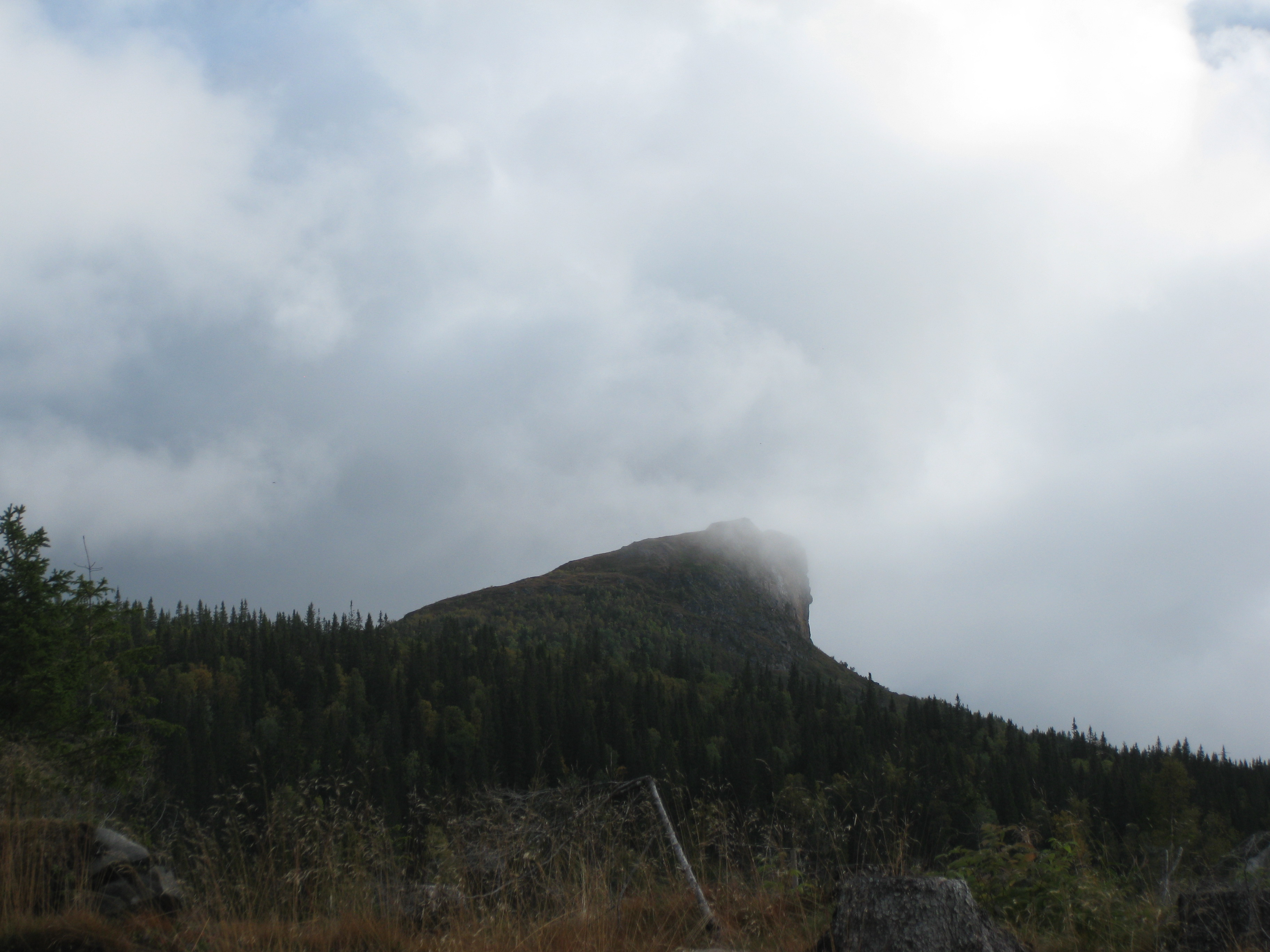 Suljätten